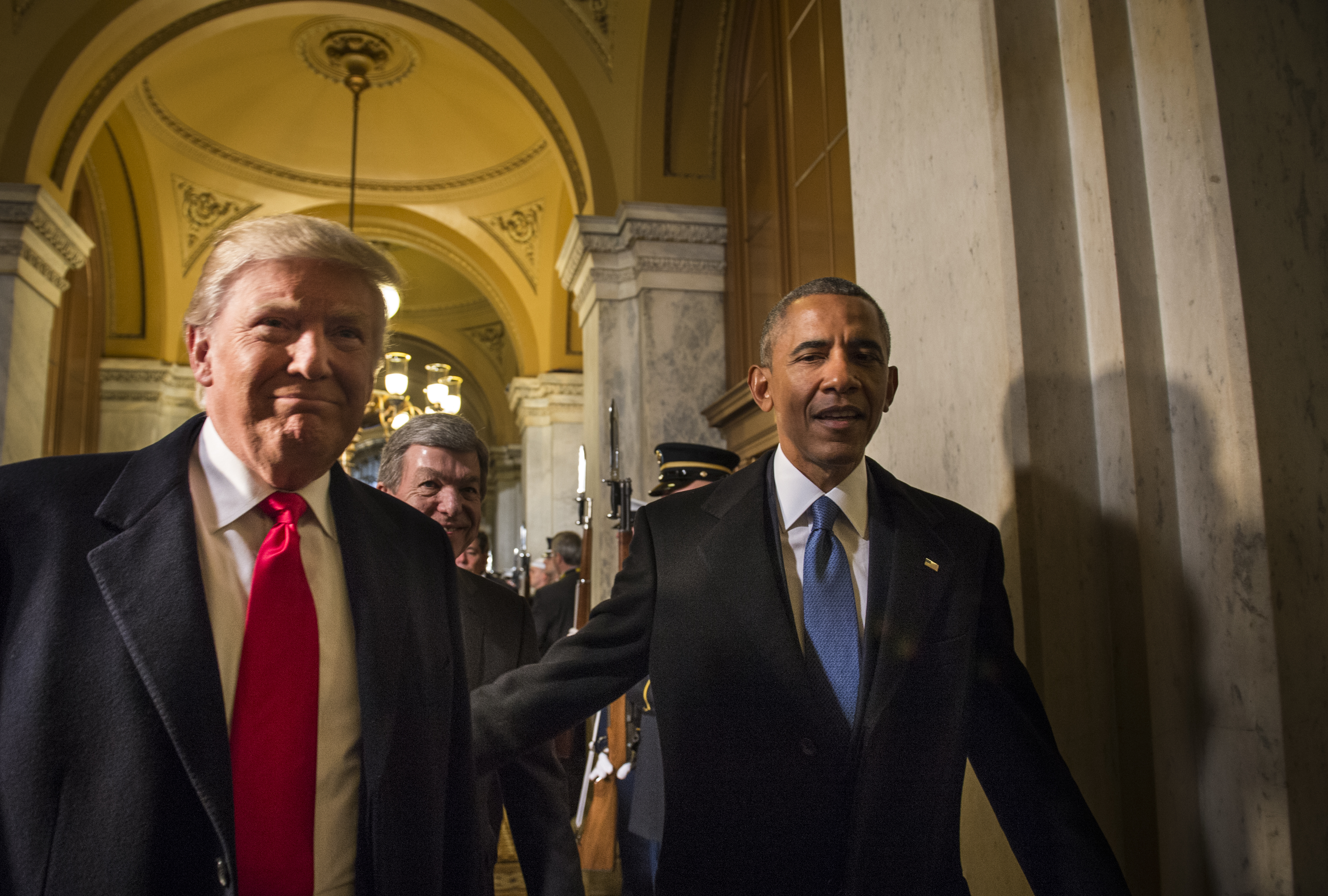 President-elect Donald J. Trump arrives with U.S. President Barack Obama at the Capitol for the 58th Presidential Inauguration in Washington, D.C., Jan. 20, 2017. More than 5,000 military members from across all branches of the armed forces of the United States, including reserve and National Guard components, provided ceremonial support and Defense Support of Civil Authorities during the inaugural period. (DoD photo by U.S. Air Force Staff Sgt. Marianique Santos) Unit: Joint Task Force - National Capital Region 58th Presidential Inauguration DVIDS Tags: President Obama; Obama; POTUS; Capitol; Capitol Hill; Presidential; Washington D.C.; JTF-NCR; Trump; Inauguration2017; President Donald J. Trump; President Trump; Trump administration; 1CTCS inauguration doc